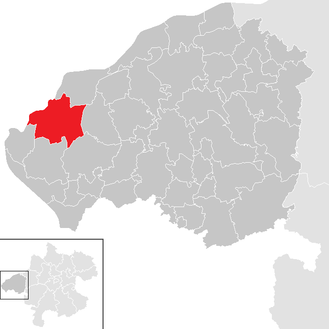 district Braunau am Inn